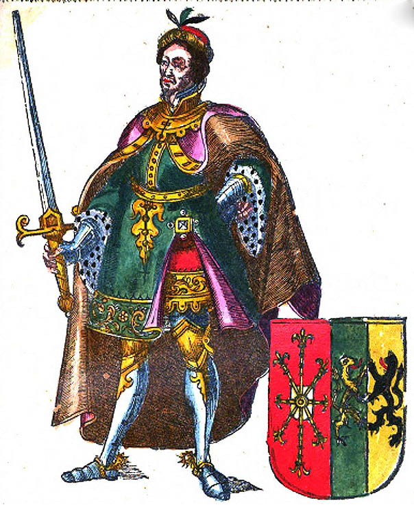 John I of Cleves